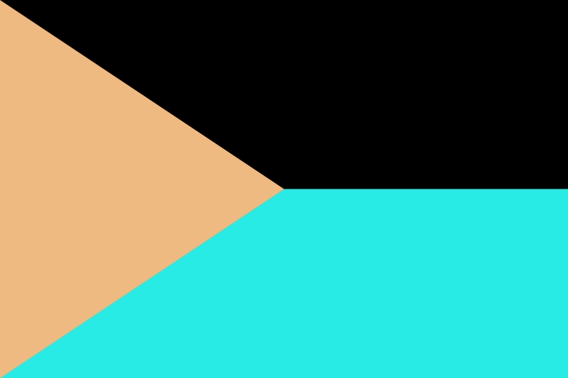 Afterimage - Negative of the flag of the Czech Republic. Stare at the image for ca 1 minute, then look at a white surface. You will see the Czech flag in real (positive) colours.